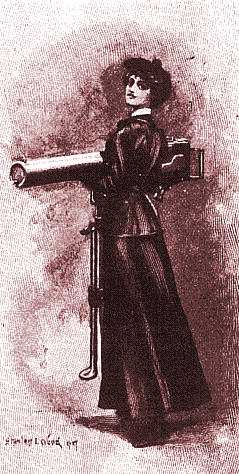 Illustration by Stanley L. Wood, showing the heroine of George Griffith's 'Stories of Other Worlds'. This illustration is often used in marketing Forgotten Futures